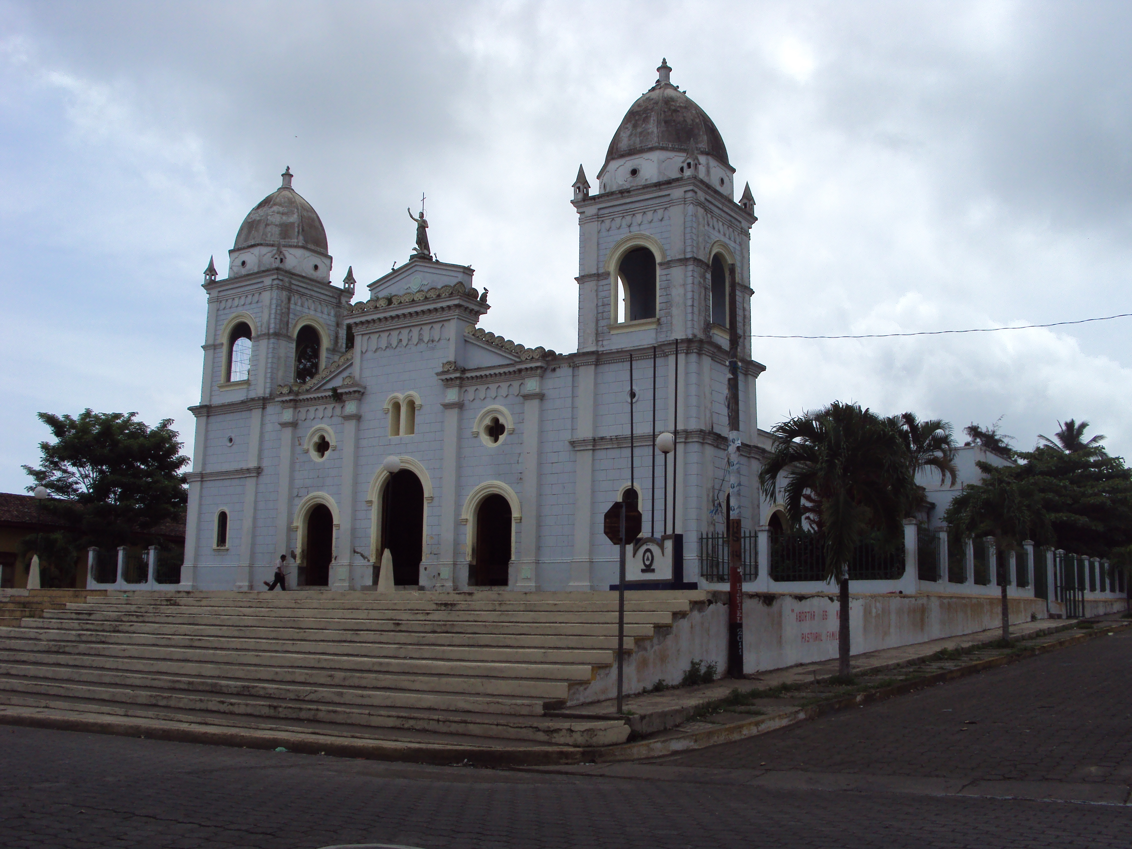 Parish Church Saint John Baptist in Masatepe, Nicaragua.